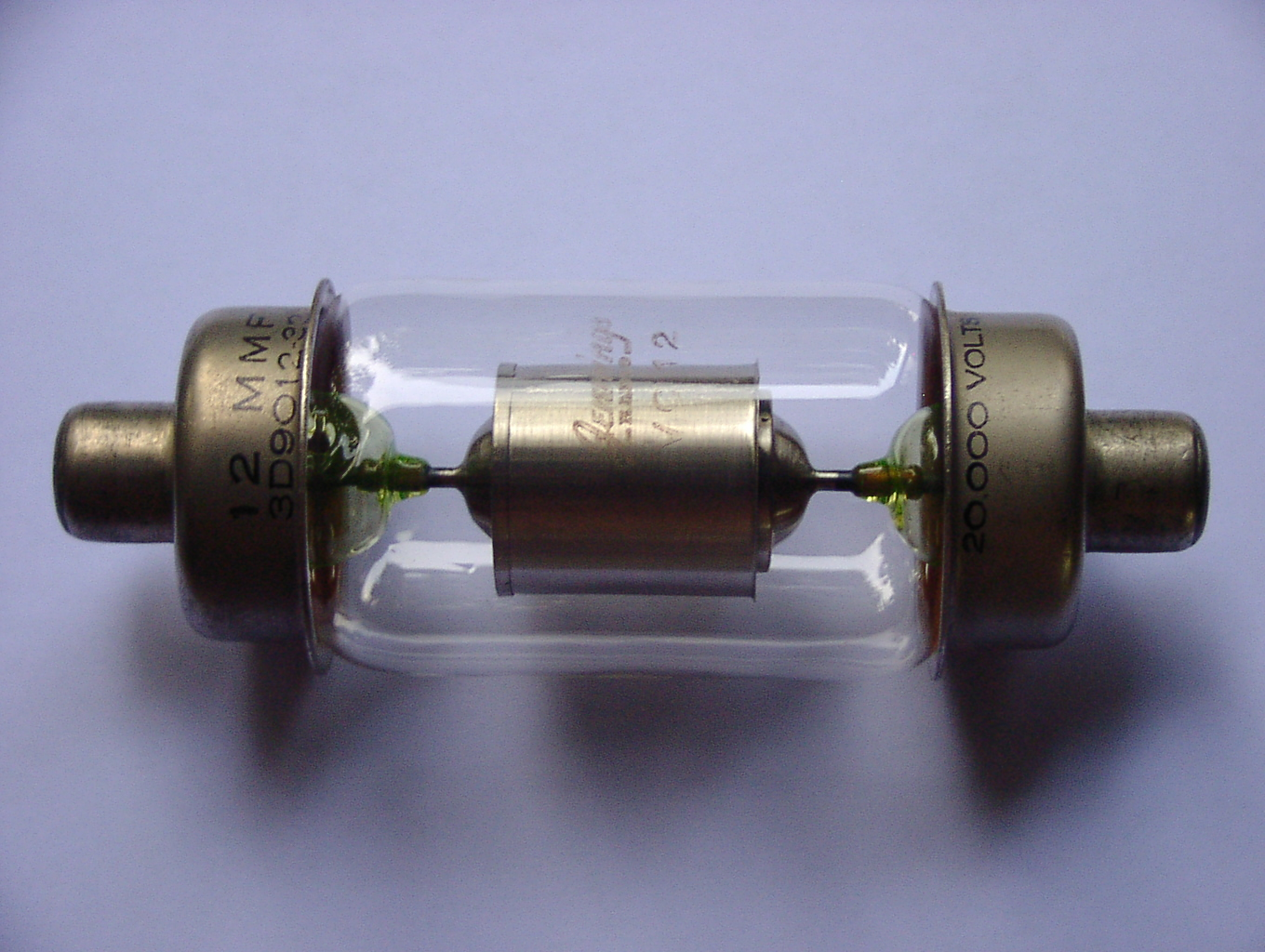 A 12-picofarad, 20-kilovolt vacuum capacitor (Jennings VC12) with pale green uranium glass lead-in seals. This 200-gram capacitor is about 16.5 cm long and 6 cm in diameter.